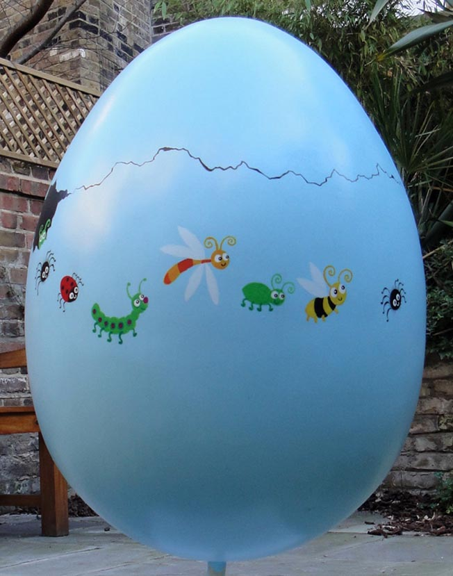 The Great Eggscape - hand painted giant Easter Egg by Alex Williams for the Big Egg Hunt